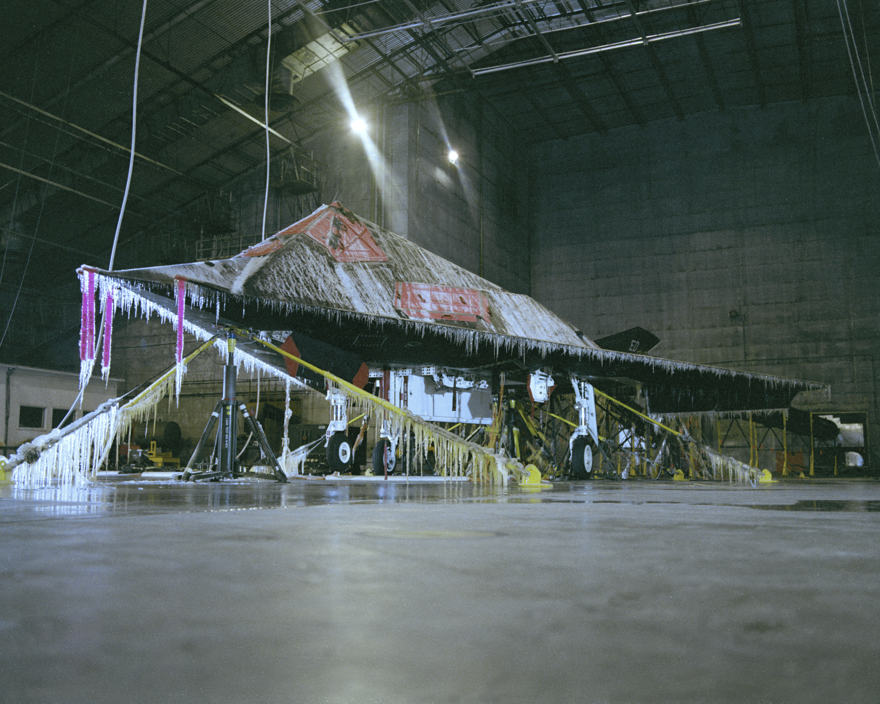 F-117 on ice at McKinley Climatic Laboratory 022808-F-0000P-064